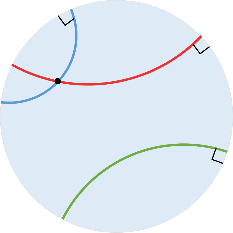 Ce schéma explicite une approche intuitive de la géométrie non euclidienne proposée par Poincaré